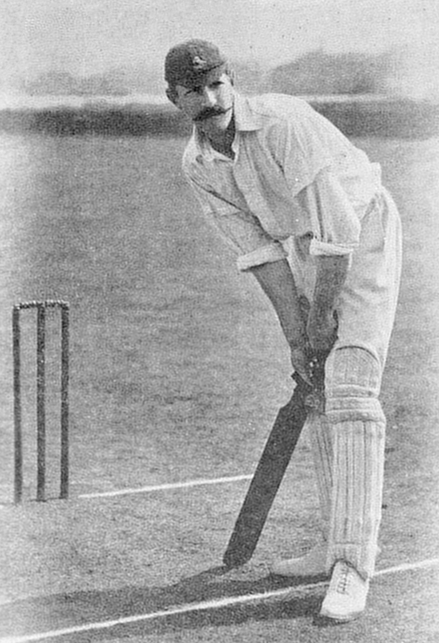 A scan of cricketer Frank Marchant